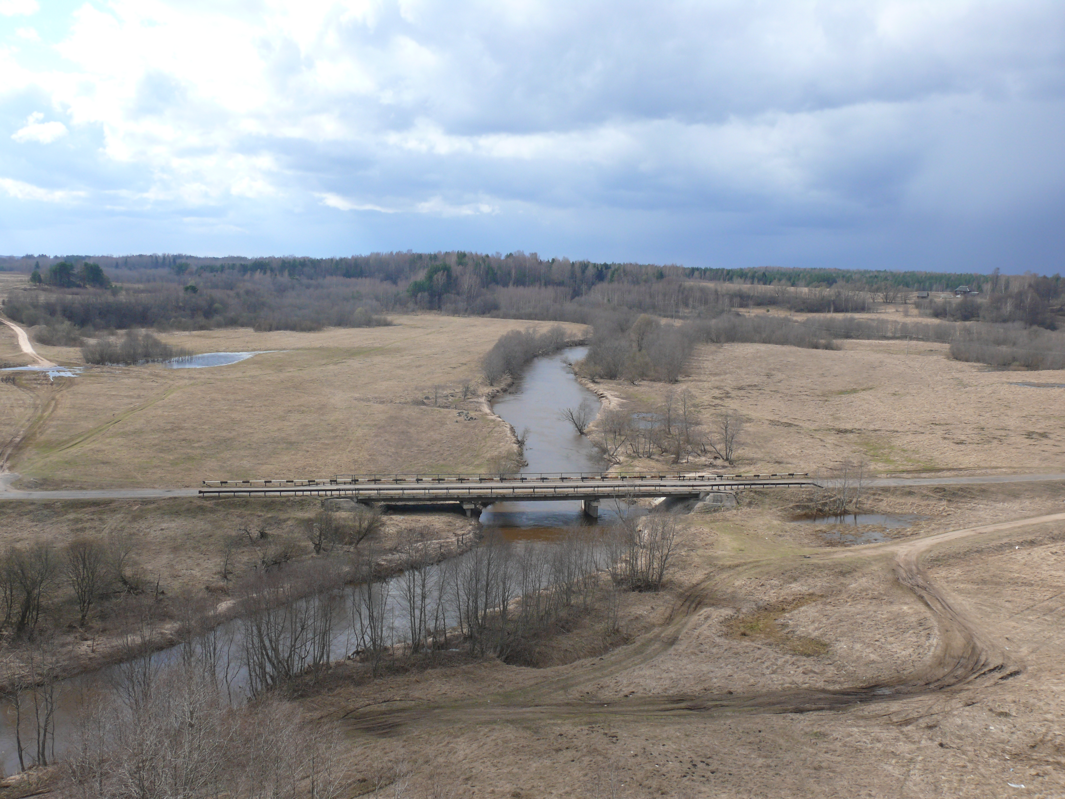 Yavon river in Peski village. Denyansky district, Novgorod oblast, Russia